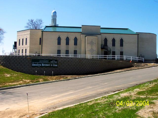 Baitul Jaamay Chicago, USA